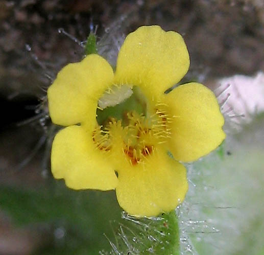 Mimulus floribundus var. floribundus — Many-flowered monkeyflower. At Solstice Canyon — in the Santa Monica Mountains National Recreation Area, Southern California. NPS photo, no copyright.